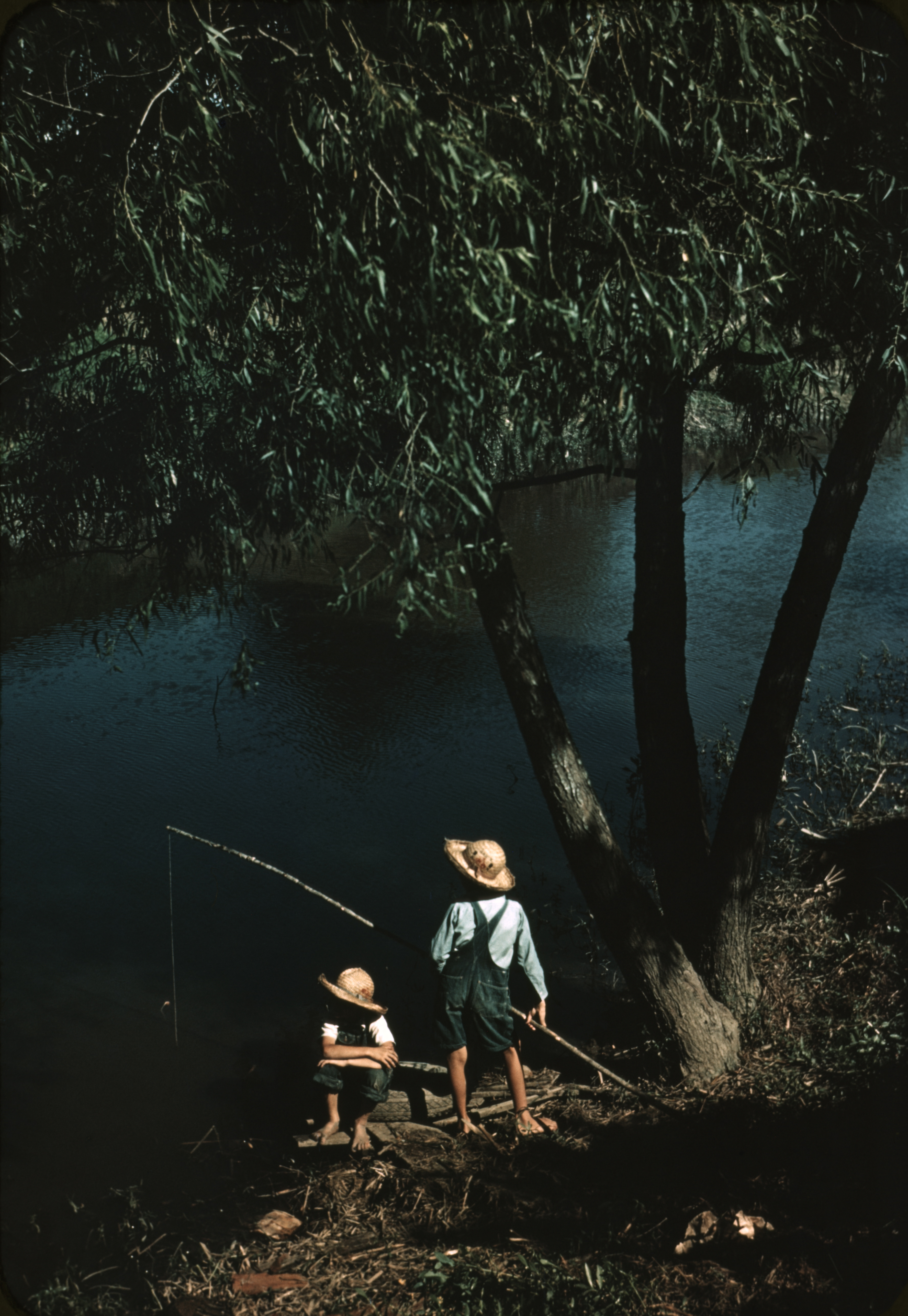 Boys fishing in a bayou, Schriever, Louisiana, 1940 Bayou near the school. Cajun children of Terrebonne Parish. Farm Security Administration photograph by Marion Post Wolcott.